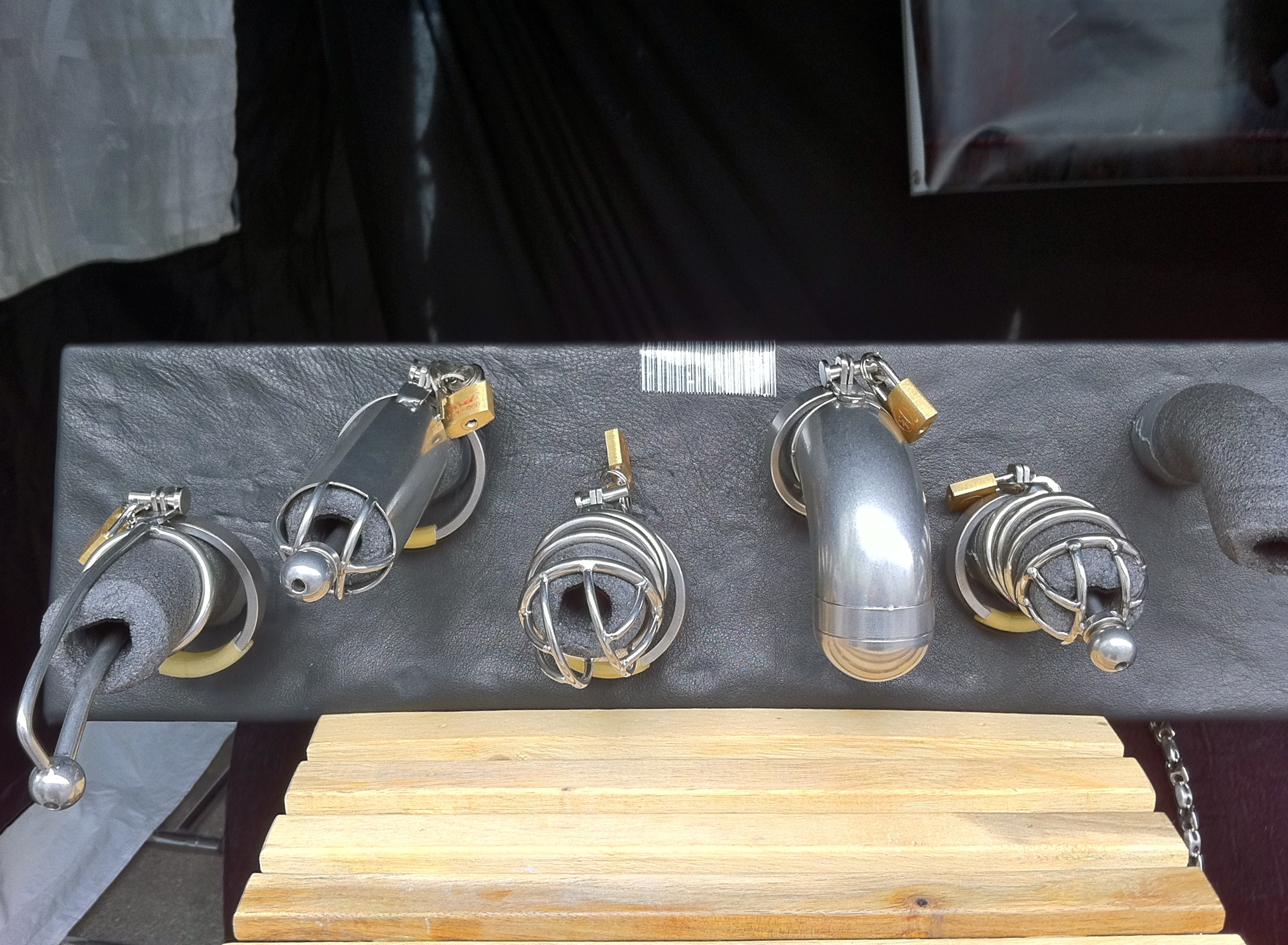 An assortment of chastity devices at Dore Alley Fair 2011